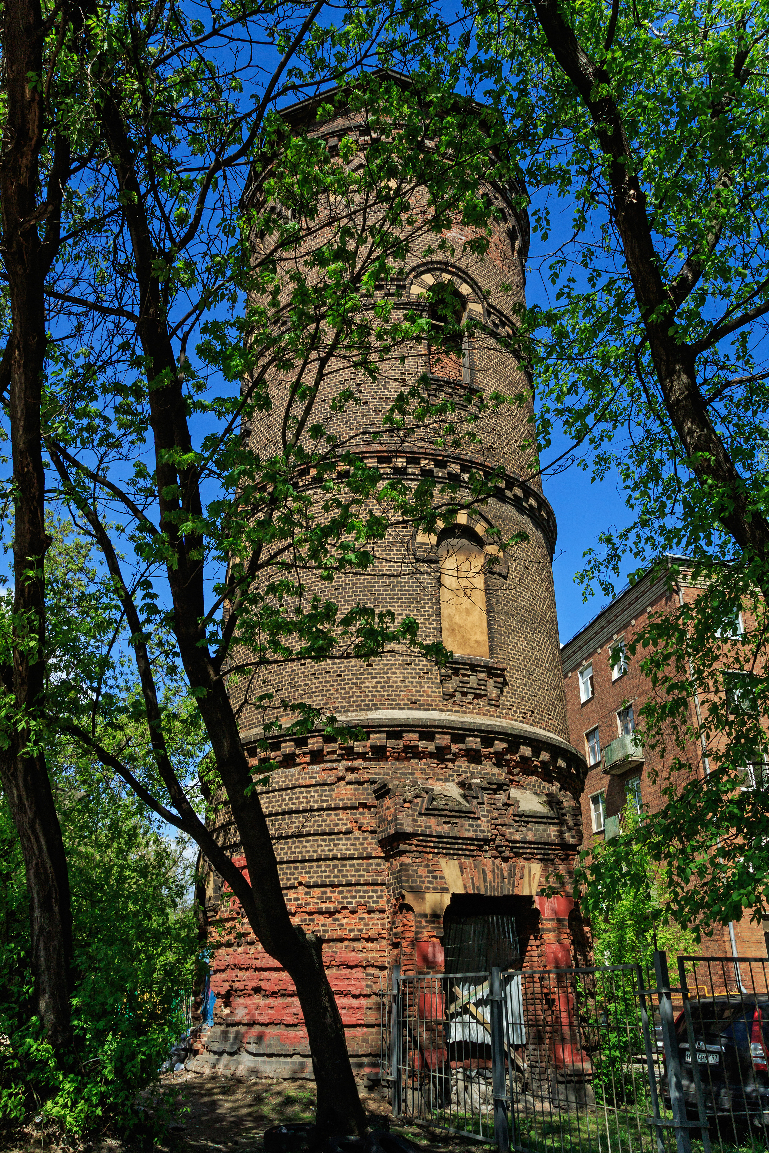 Water tower at M-Tovarnaya-Paveletskaya railway station in Moscow (Russia).